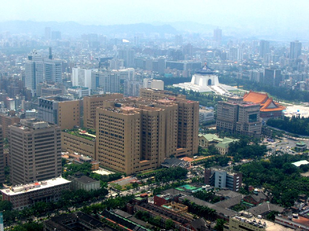 The National Taiwan University Hospital (center of picture).Picture taken on the observation deck of the Shin Kong Life Tower.